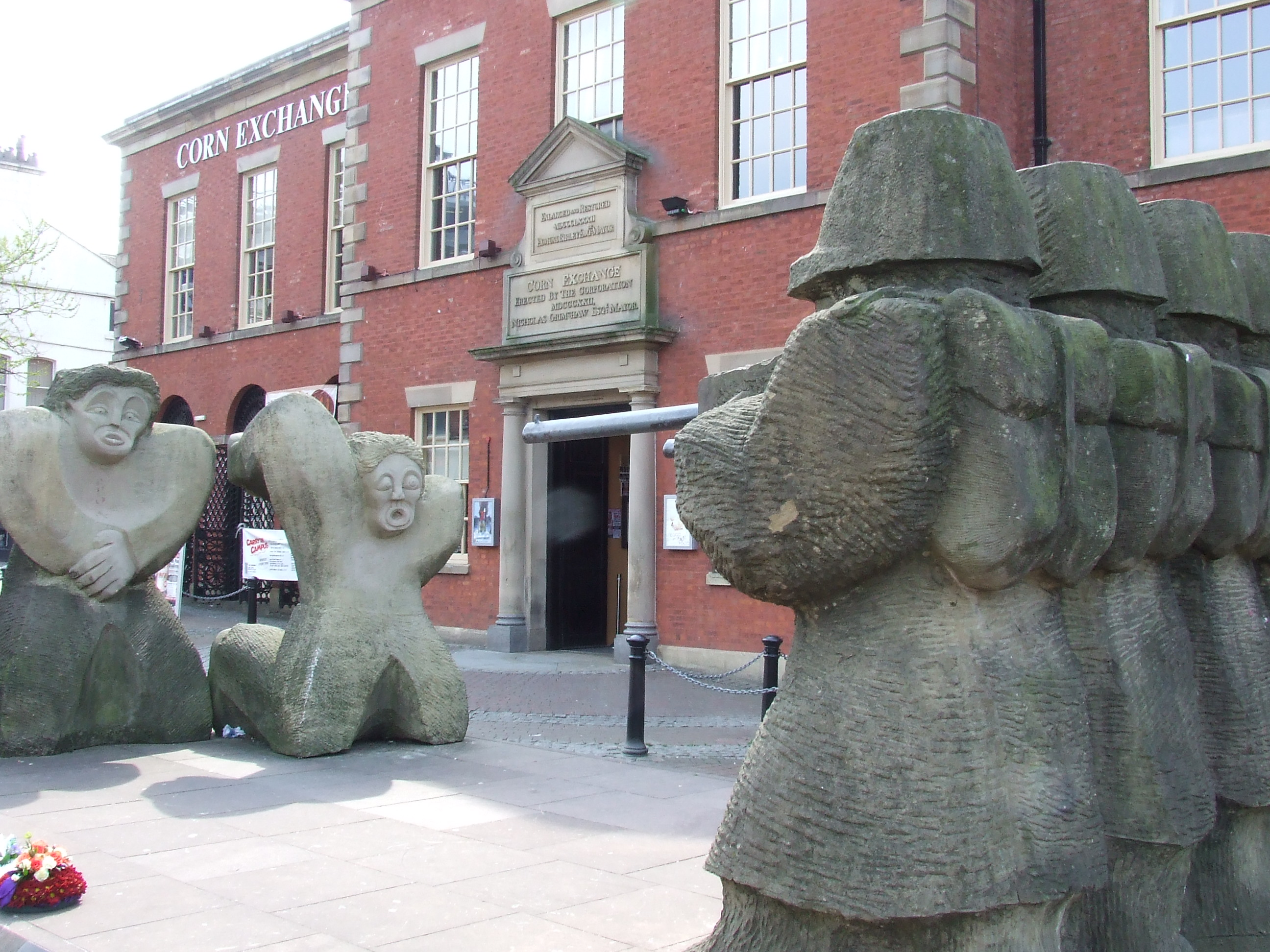 Statue commemorating the 1842 Plug Plot Riots outside the Corn Exchange, Preston